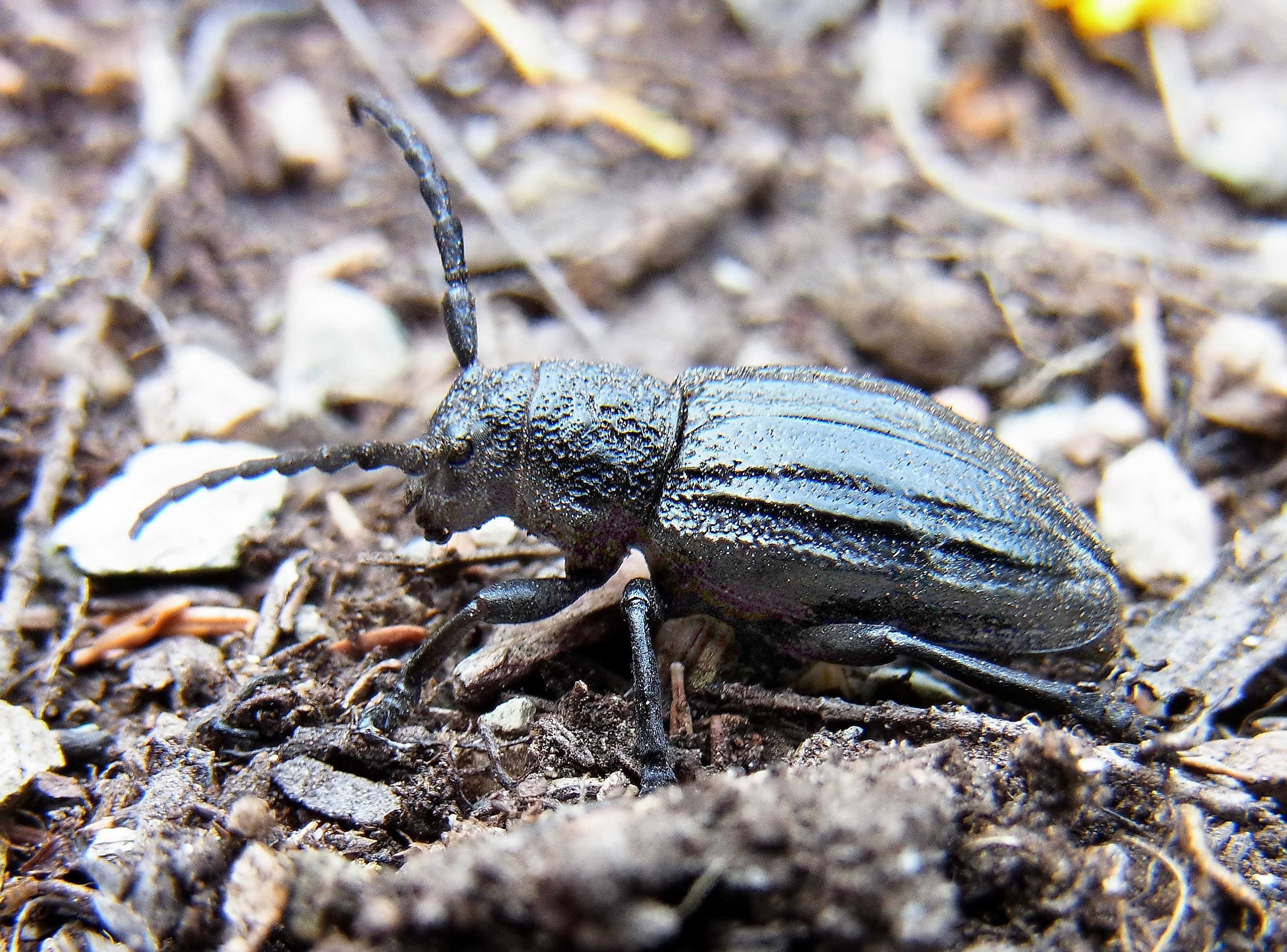 Iberodorcadion seoanei ssp. kricheldorffi from Northern Spain over the small village Es 24433 Balouta, Léon, Cantabrique mountains, near the highest point of the street, that leads to Es 24450 Toreno, Léon at 2013-07-22.